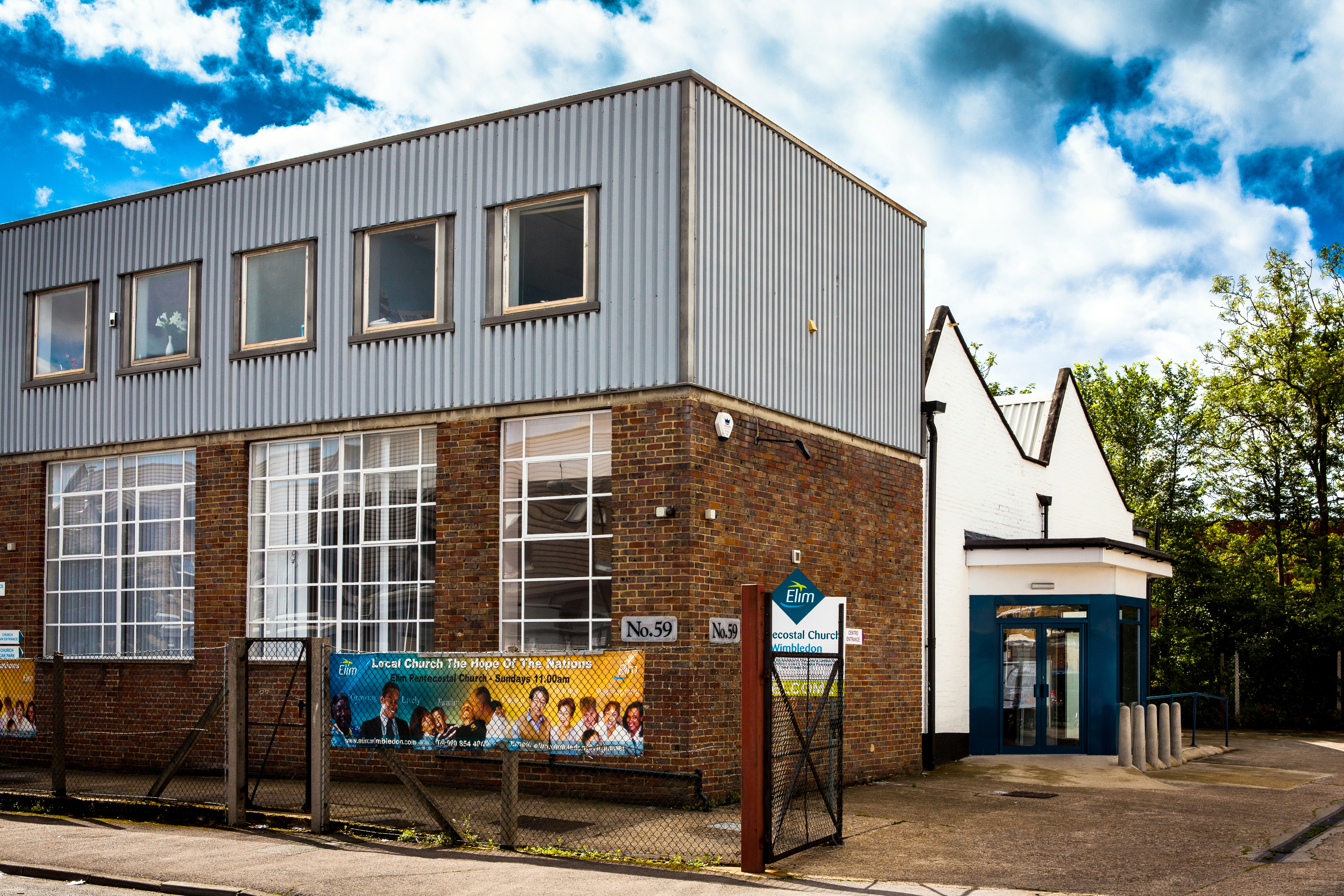 Elim Pentecostal Church, 59 High Path, Wimbledon, London SW19